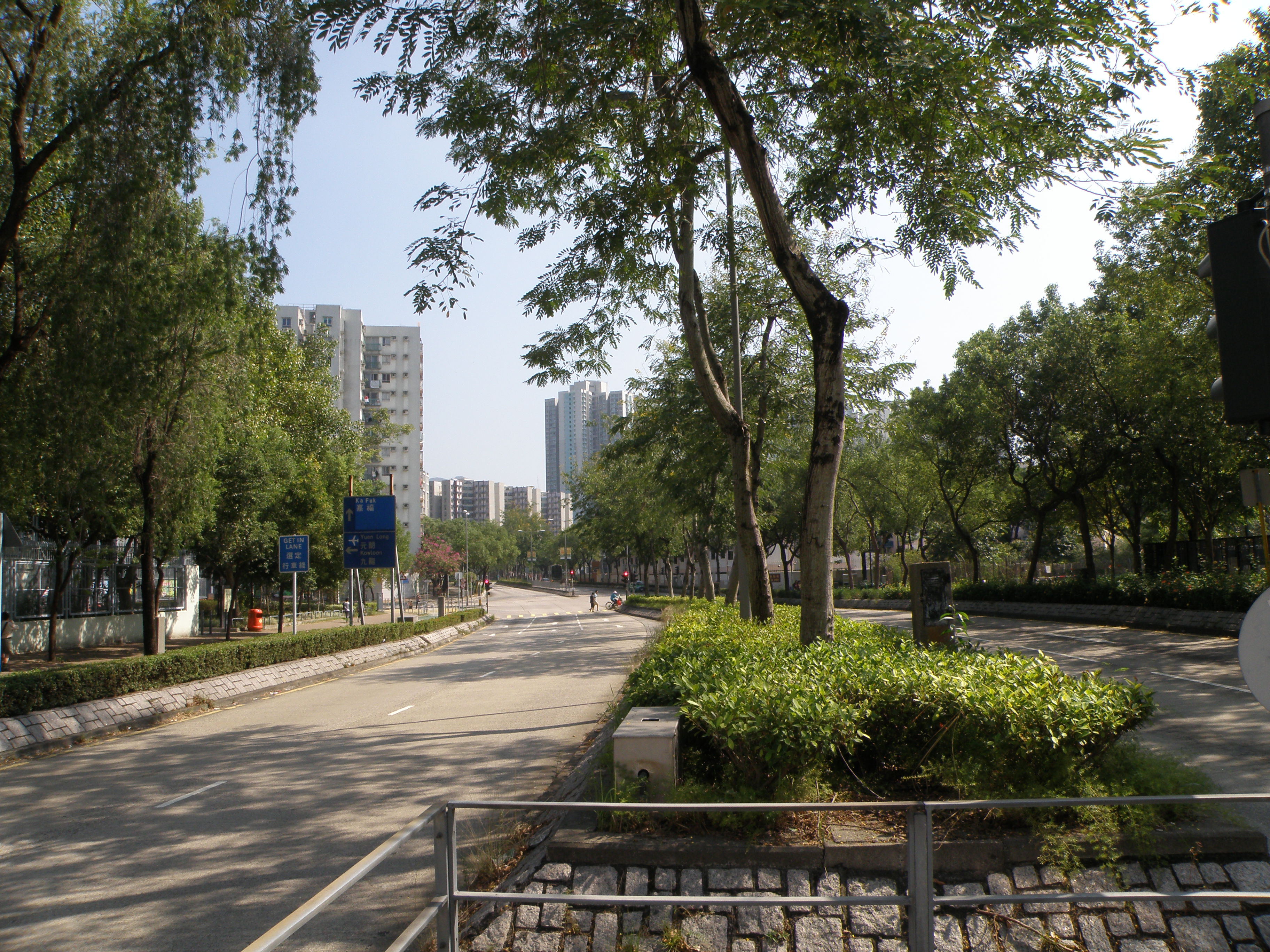 Pak Wo Road in Sheung Shui, Hong Kong.